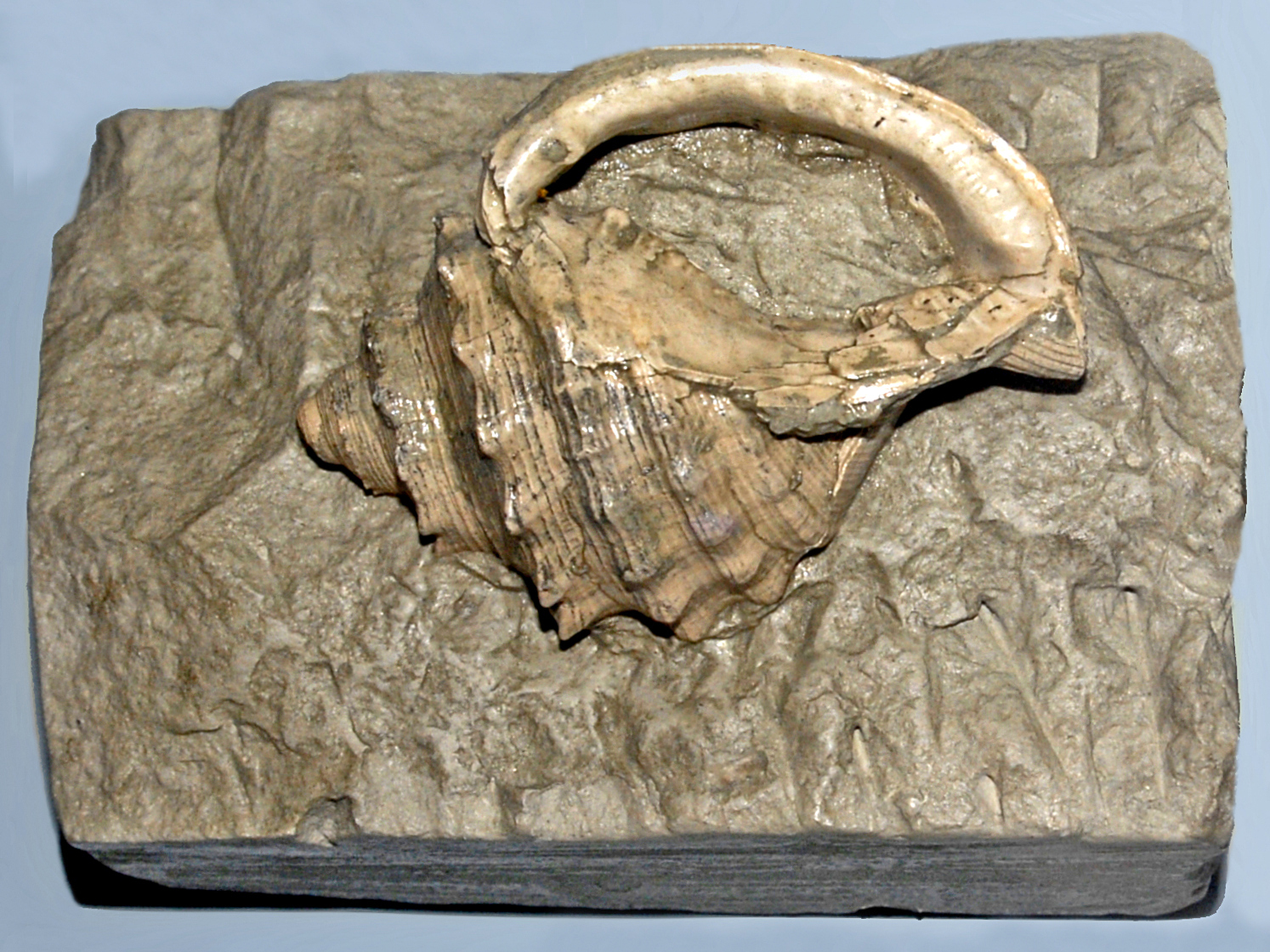 Fossil shell of Galeodea echinophora, on display at the Museo Paleontologico Giulio Maini, Ovada